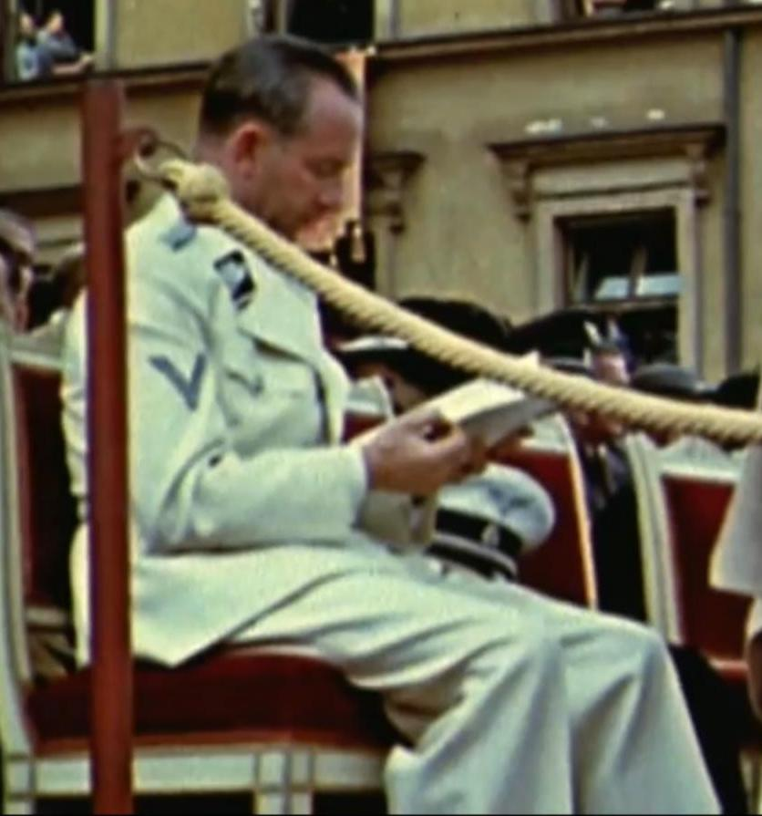 Der spätere SED - Parteisekretär und Konstrukteur des Kalten Krieges in der „DDR“ Dr. Kurt Willimczik in seiner weißen SS Uniform 1939.